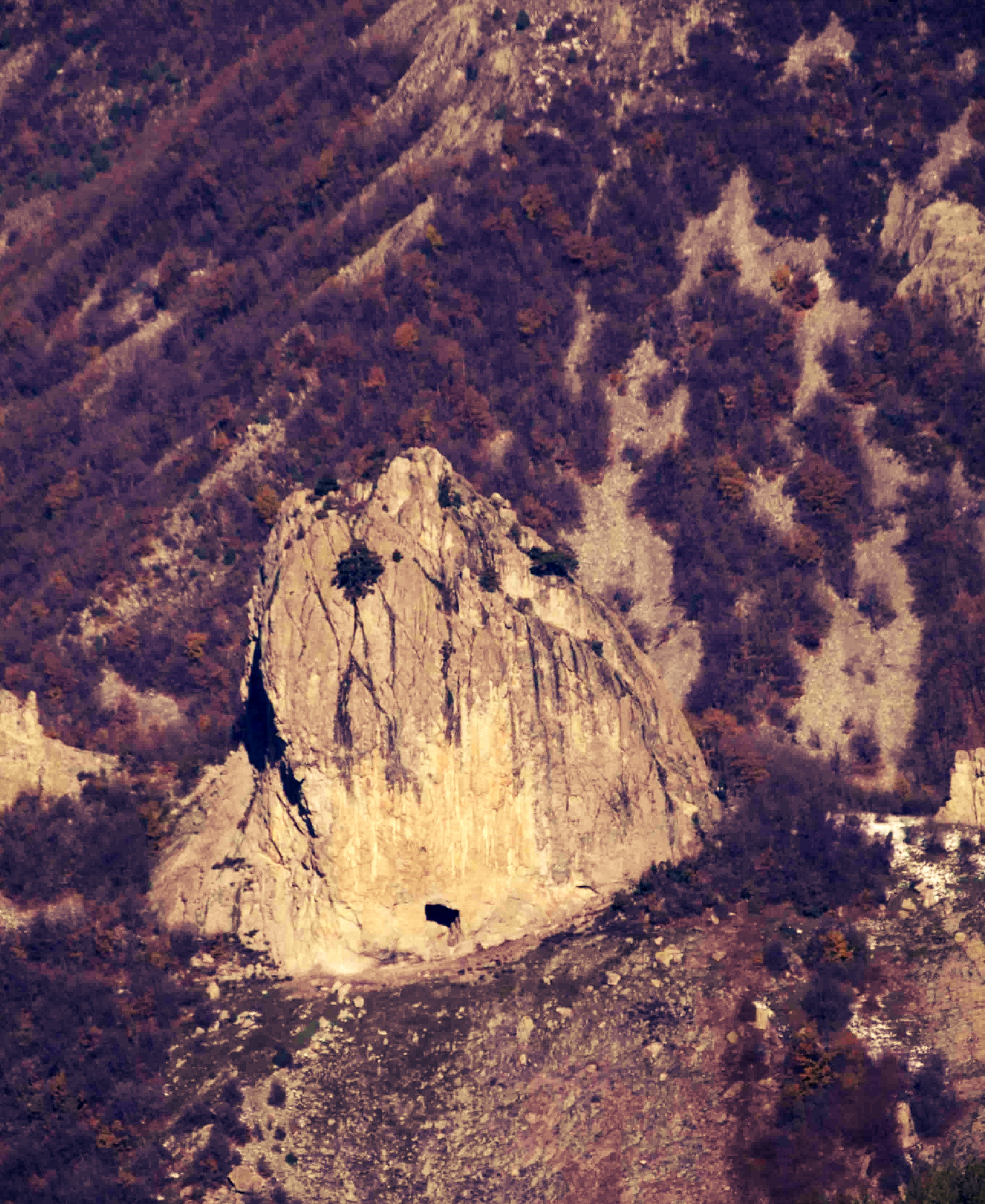 Sara kaya